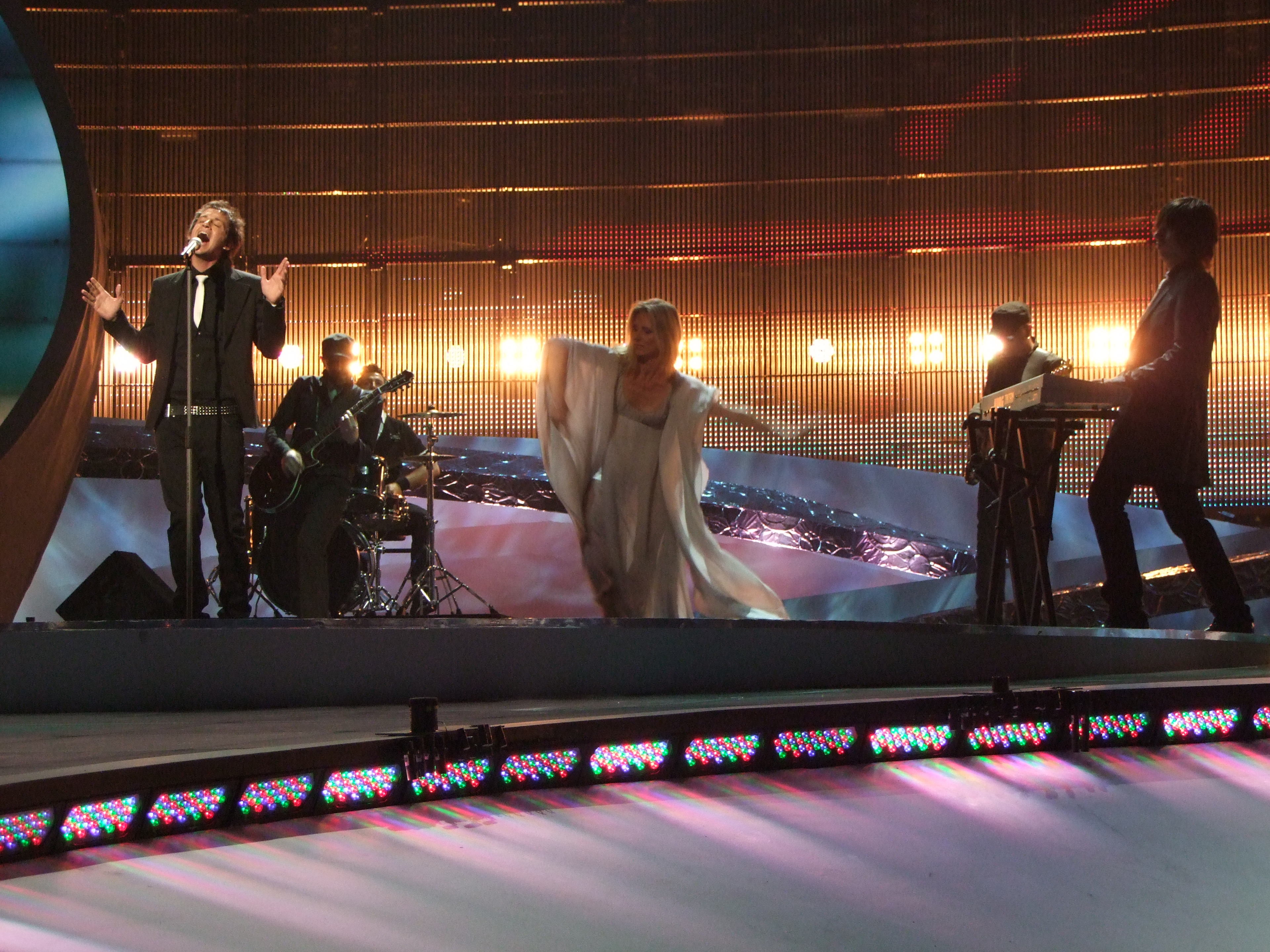 Eurovision Song Contest 2008, 1st semifinalSan Marino: Miodio - Complice